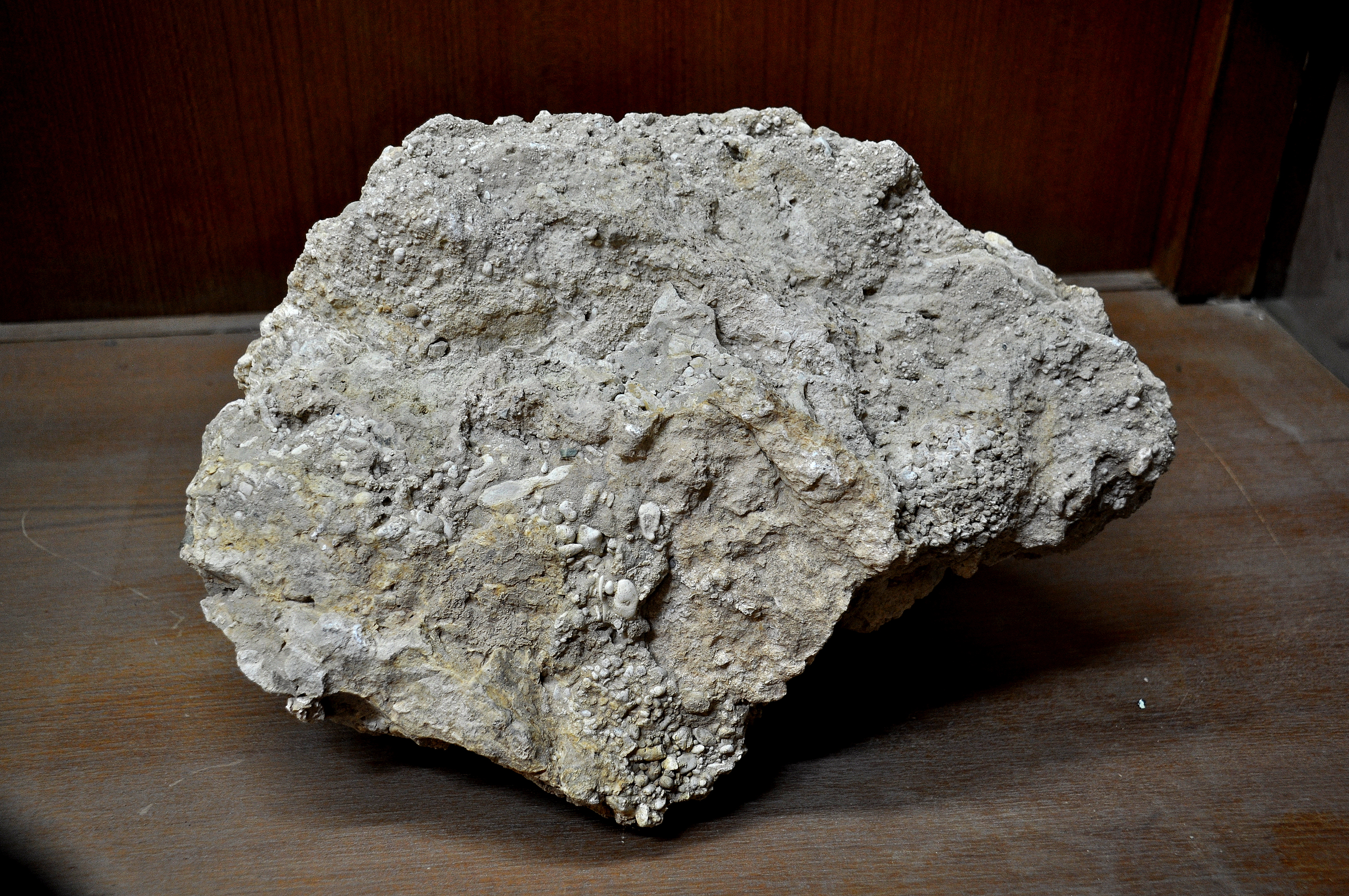 The stone dates back to the Paleolithic age. This piece is housed in the Sulaymaniyah Museum, Iraq.